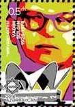 Architects Union of Azerbaijan. Stamp book. Size of book: 177x200. Quantity of pages: 44. This book is about Azerbaijan architects who lived and created in the second part of 20th century. There are included three blocks of four stamps in each stamp book. Vuqar Eyyubov is the painter of the book and the stamps. Block size 75x90mm. Stamps size: 26x37mm. Catalogue number:1506-1517 Perforation:through 13 ¼ Issued: by Bobruysk Integrated Printing House Belarus, Bodruysk city Circulation:5000 stamps in each block Stamps included in to blocks: N1506 Honoured architect Ilham Aliyev N1507 Architect Vadim Shulgin N1508 Engineer architect Sanan Sultanov N1509 Honoured architect Parviz Huseynov N1510 Honoured architect Hajimurad Shugayev N1511 Honoured architect Avrora Salamova N1512 Honoured architect Fira Rustambayova N1513 Honoured architect Abram Surkin N1514 Professor Abdulvahab Salamzade N1515 Architect Davud Akhundov N1516 Architect Talat Dadashov N1517 Architect Boris Revazov FDC: each post block of 100 cover (total 300 cover)